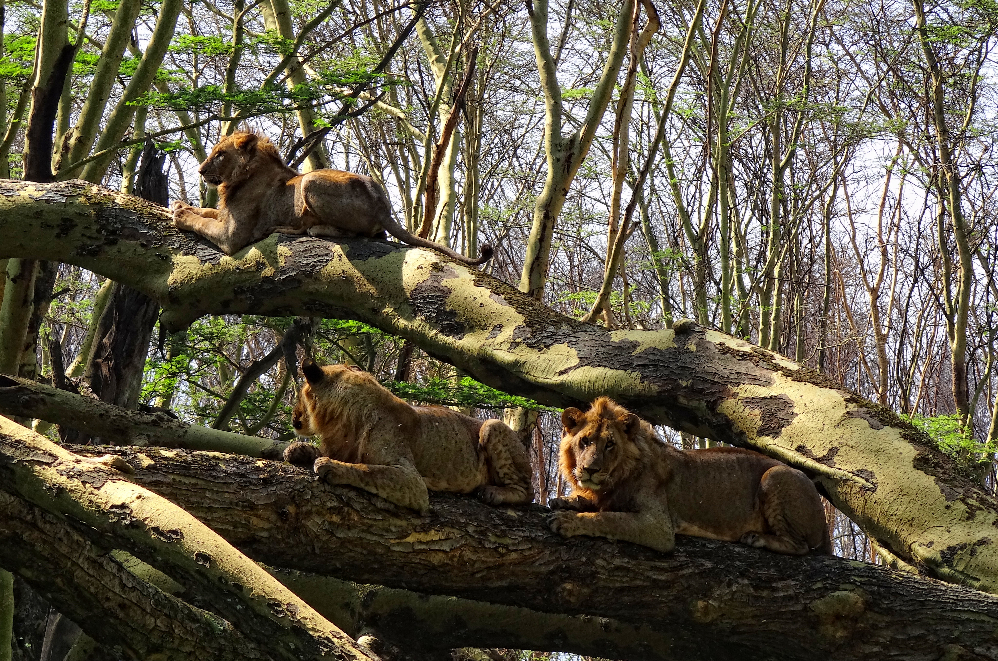 A small group of young male lions have retired up into a tree to escape from vast numbers of flies closer to the ground.